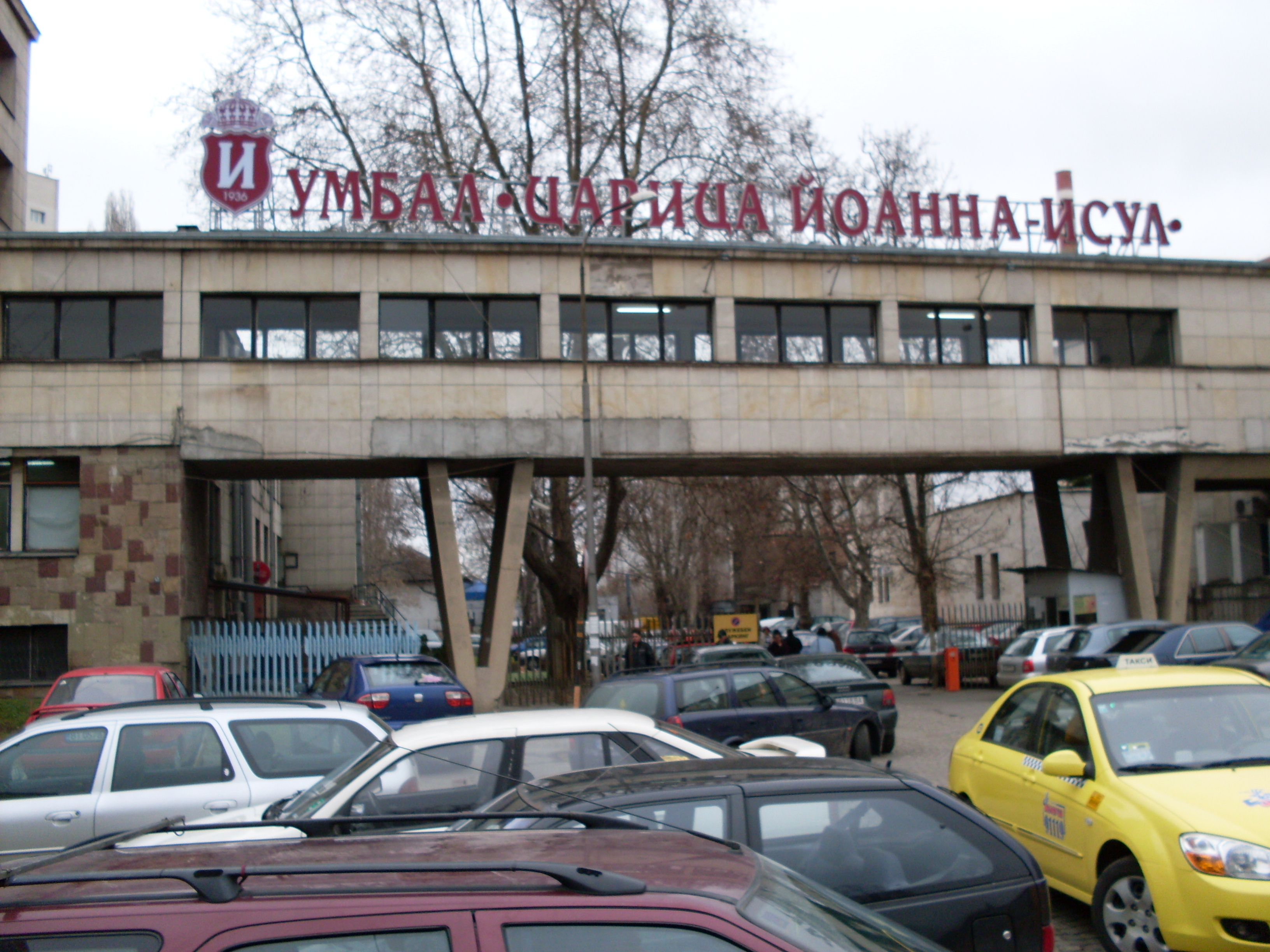 MBAL_Tsaritsa_Ioanna